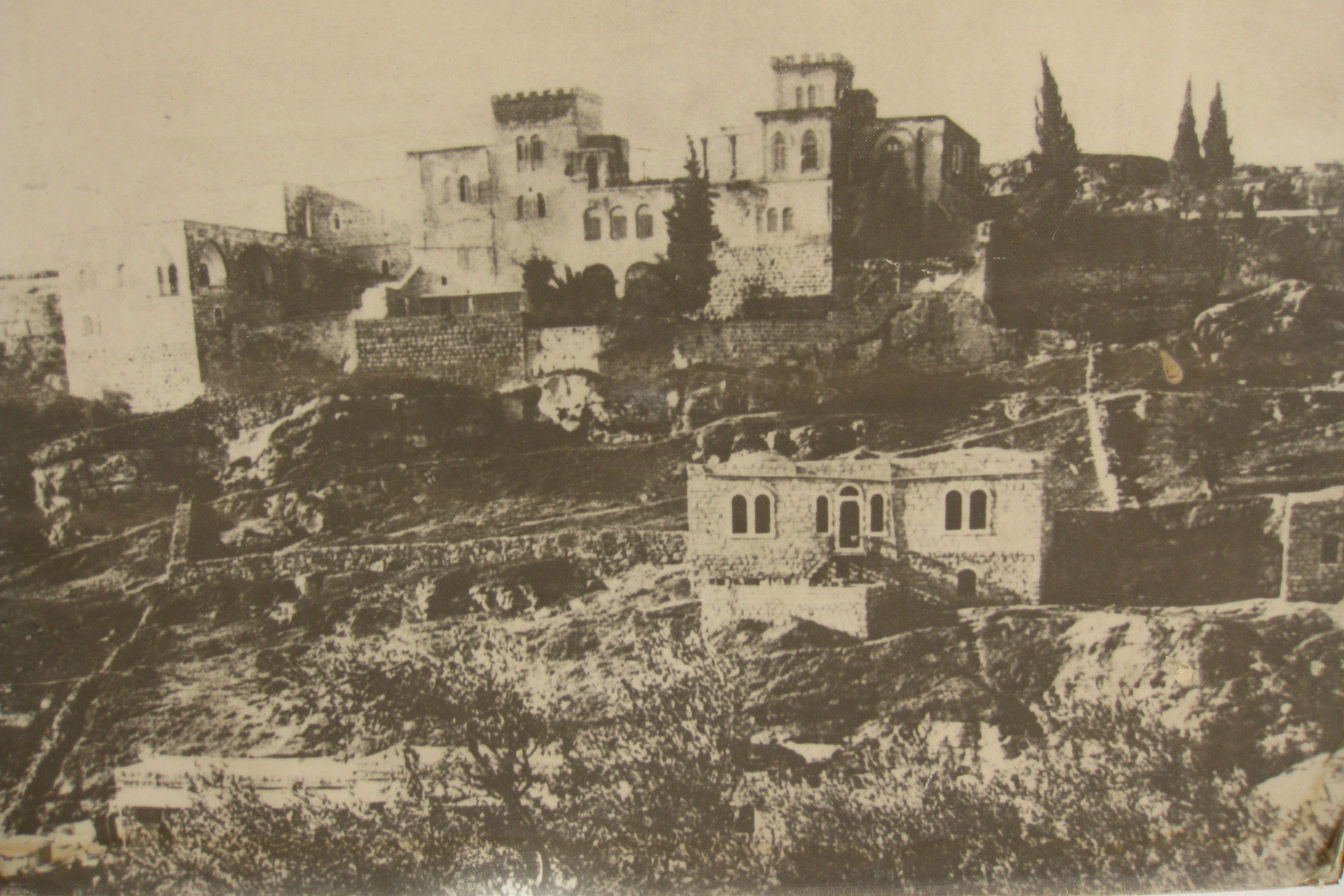 The building of Mount Zion Hotel in its first year